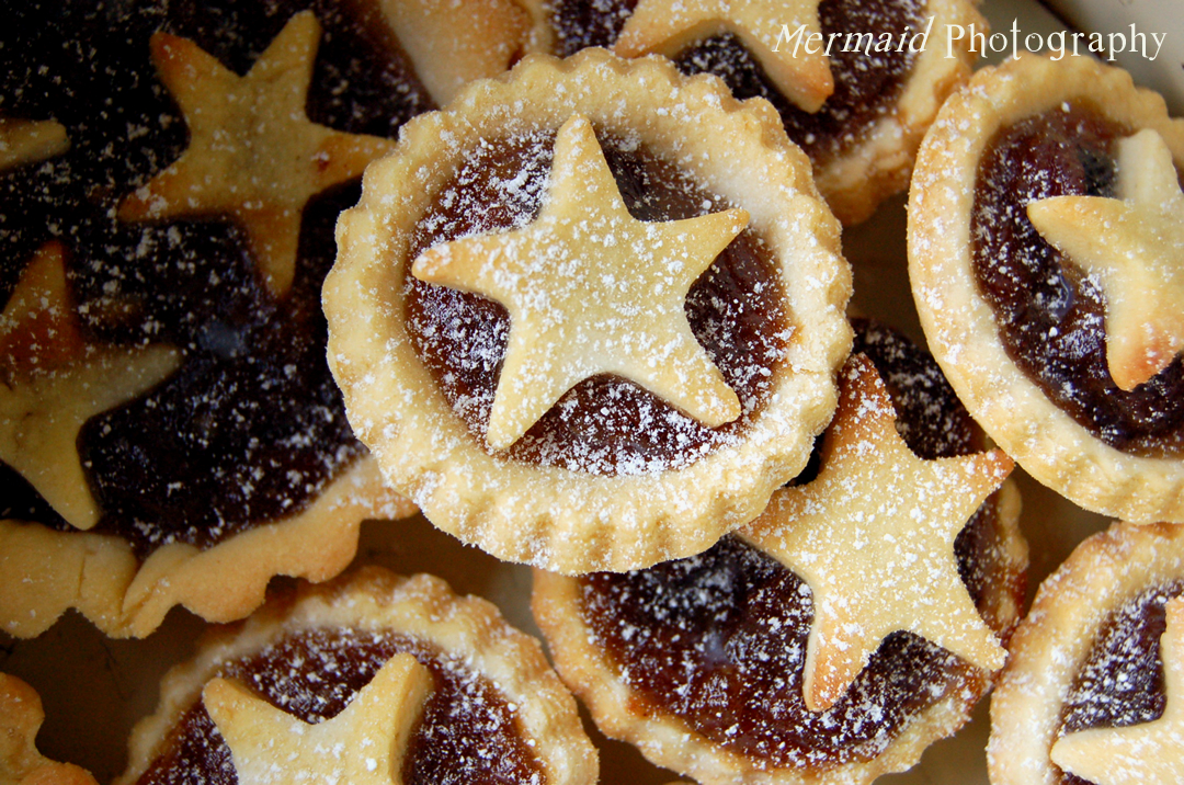 Many mince pies with star decoration dusted with confectioner's sugar.